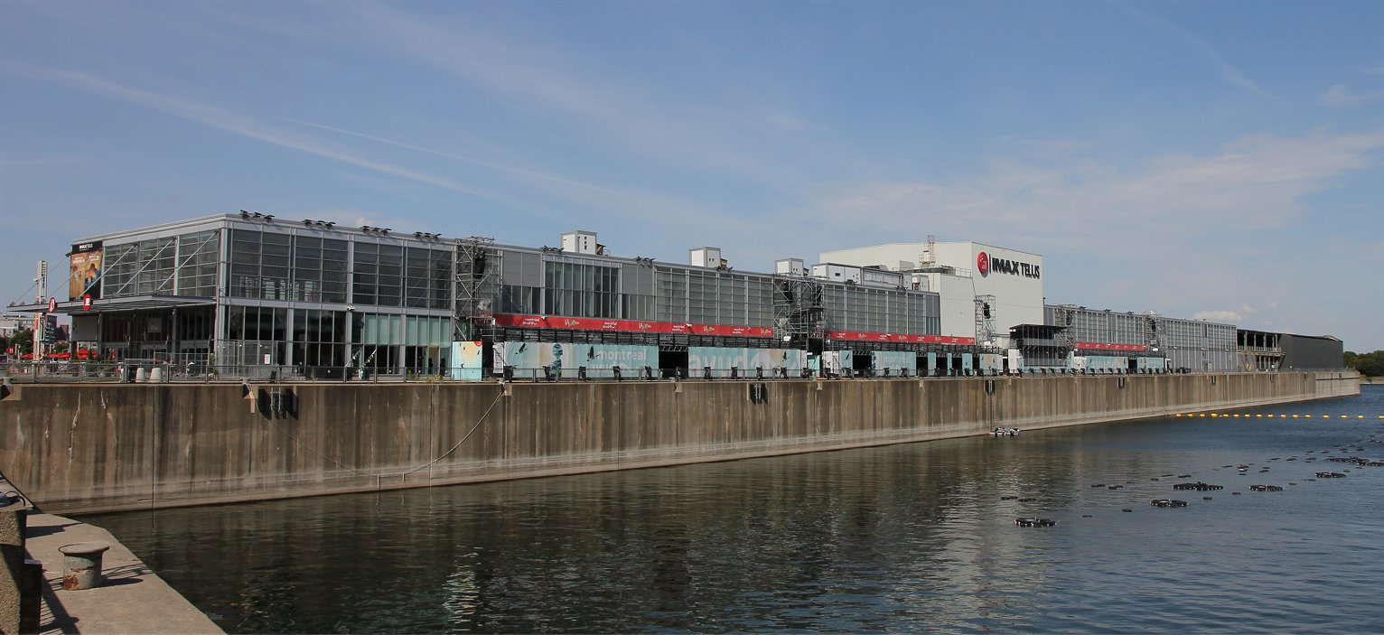 Montreal Science Center, Montreal, Canada.